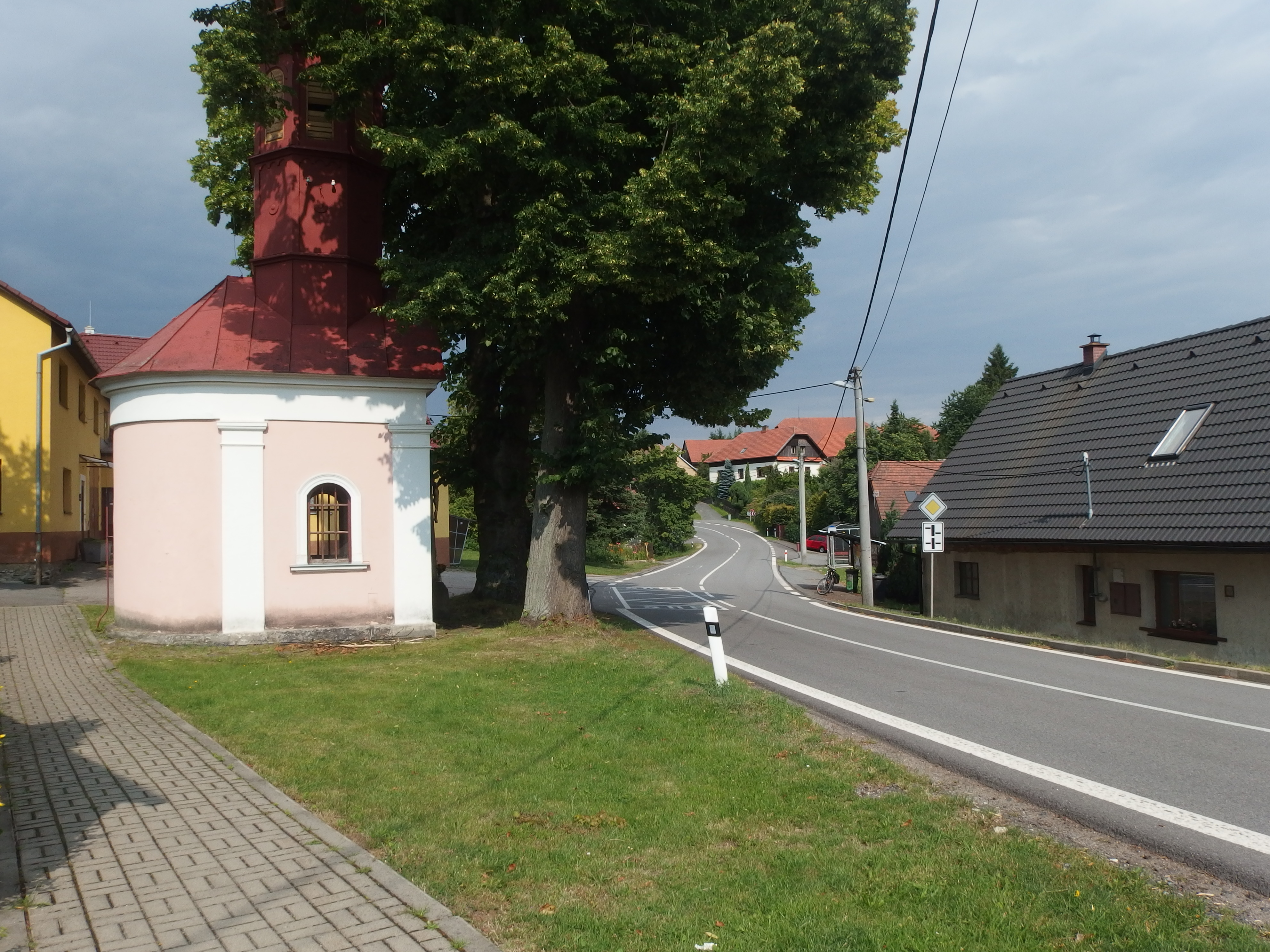 Bystřice nad Pernštejnem, Žďár nad Sázavou District, Czechia, part Rovné.